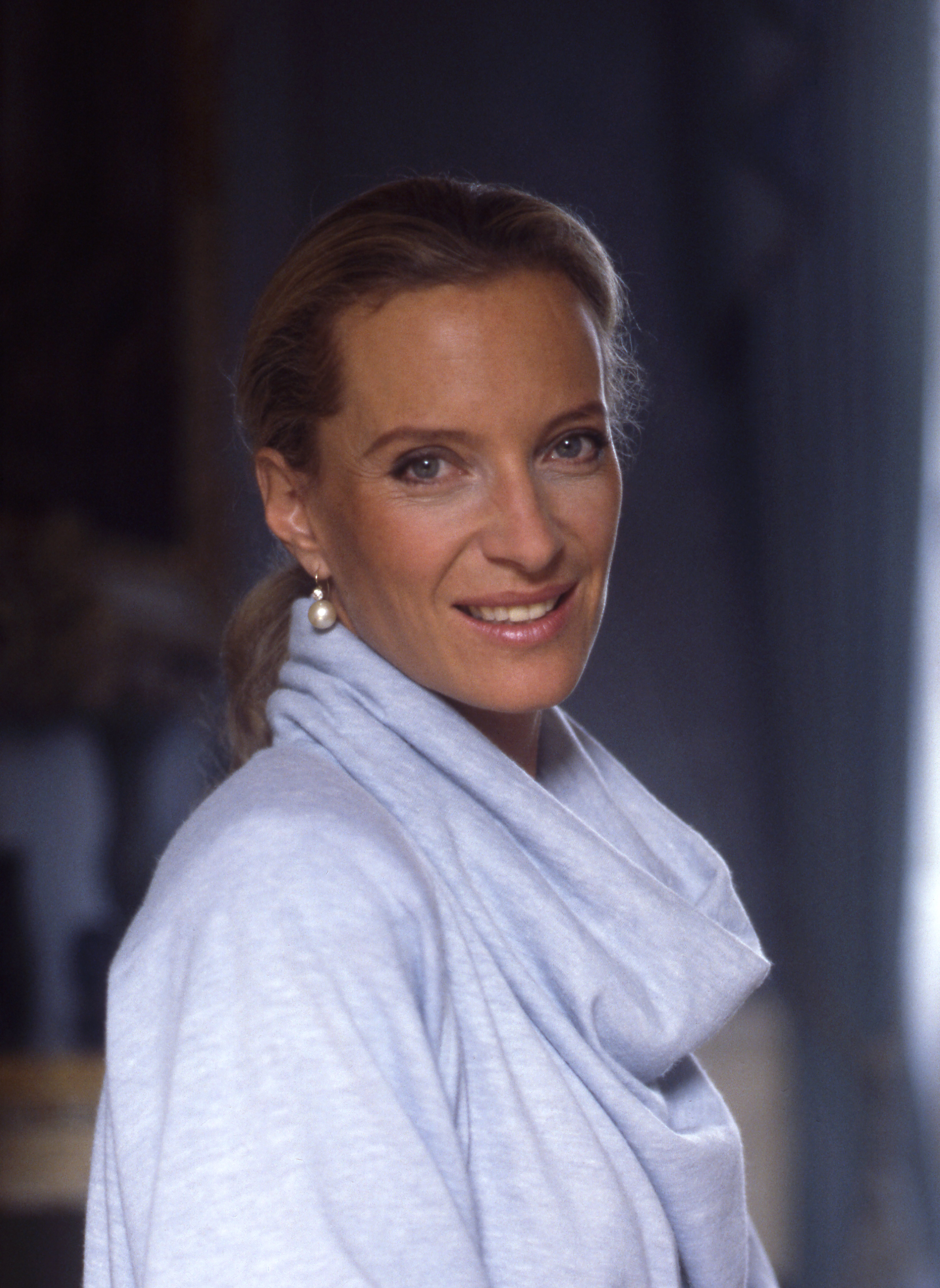 Portrait of Princess Michael of Kent